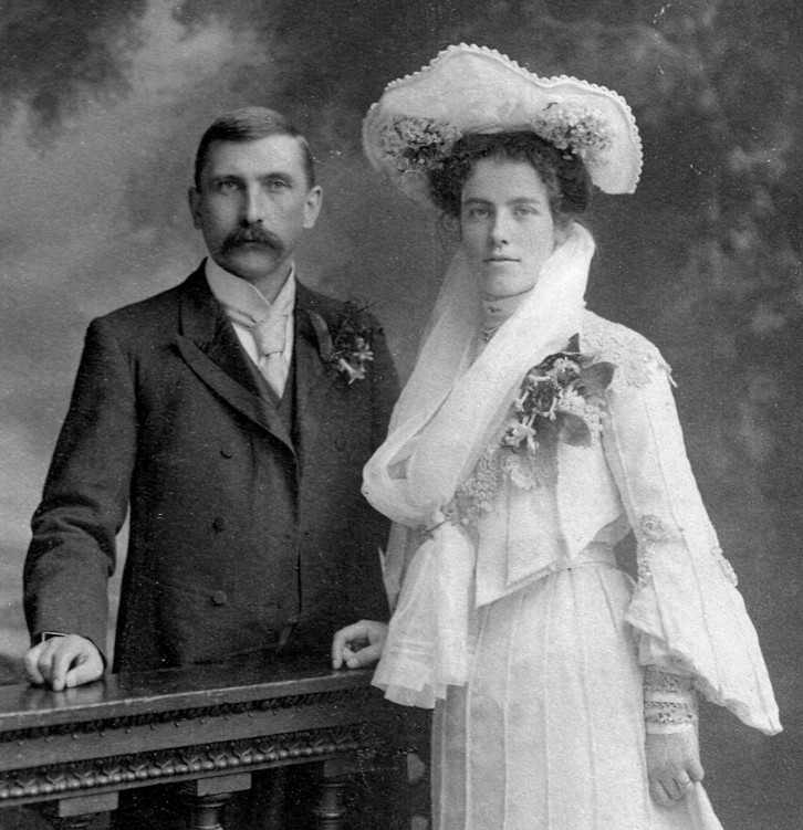 Photo taken at their marriage of F.O. Oertel and Margaret H. Lechmere, 25 July 1903, Stereoscopic Company, London